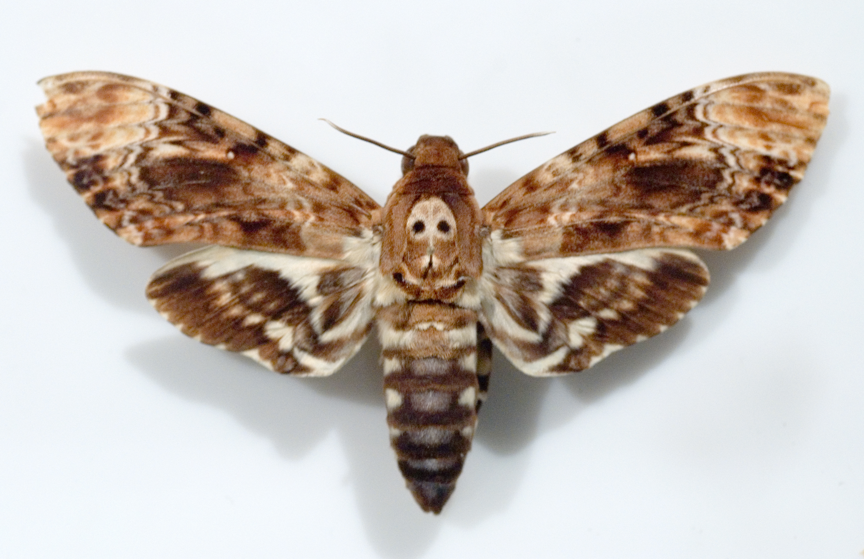 Acherontia lachesis (en: Death's-head Hawkmoth)